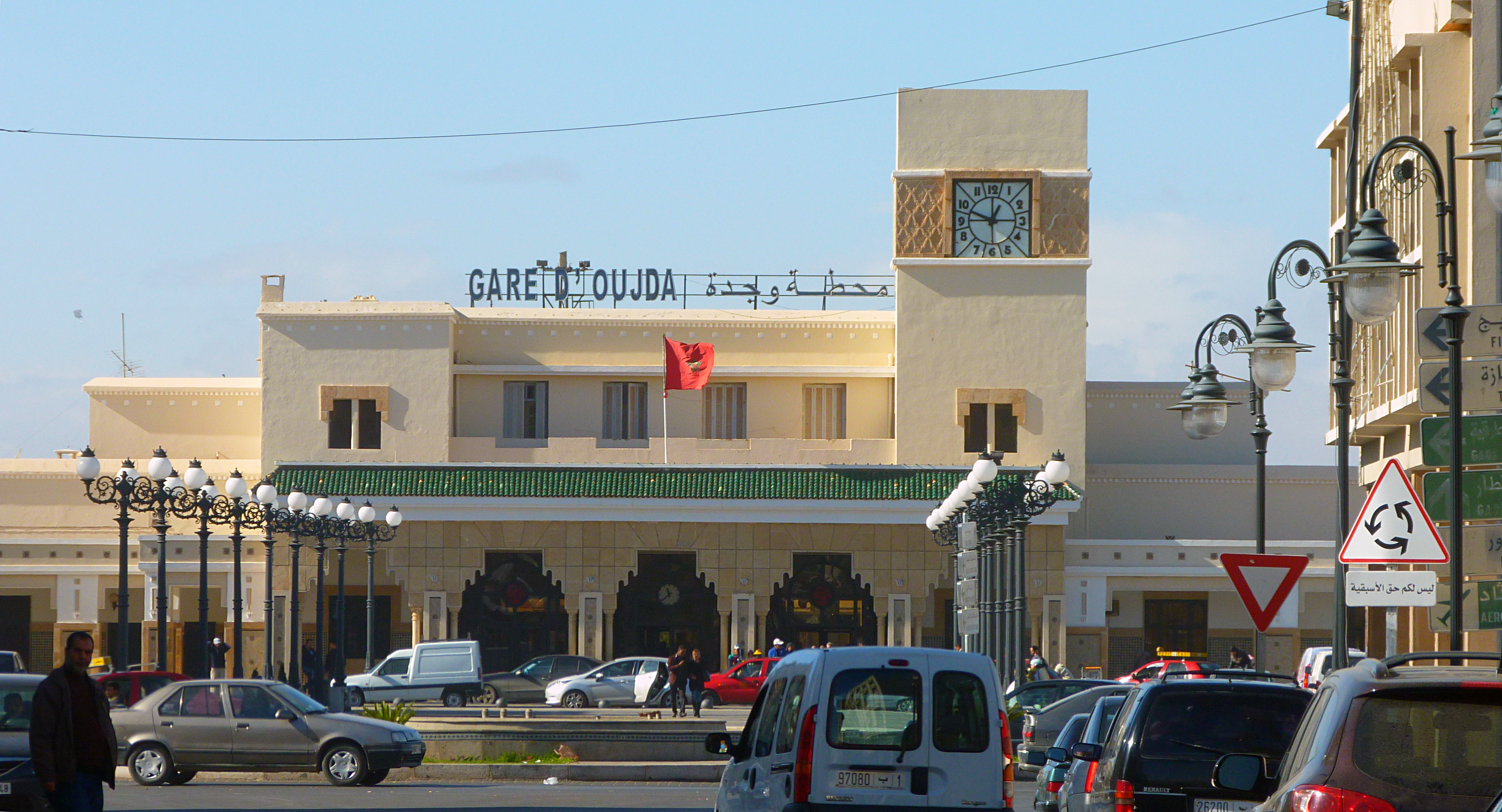 The railway station in Oujda, Oriental region of Morocco.